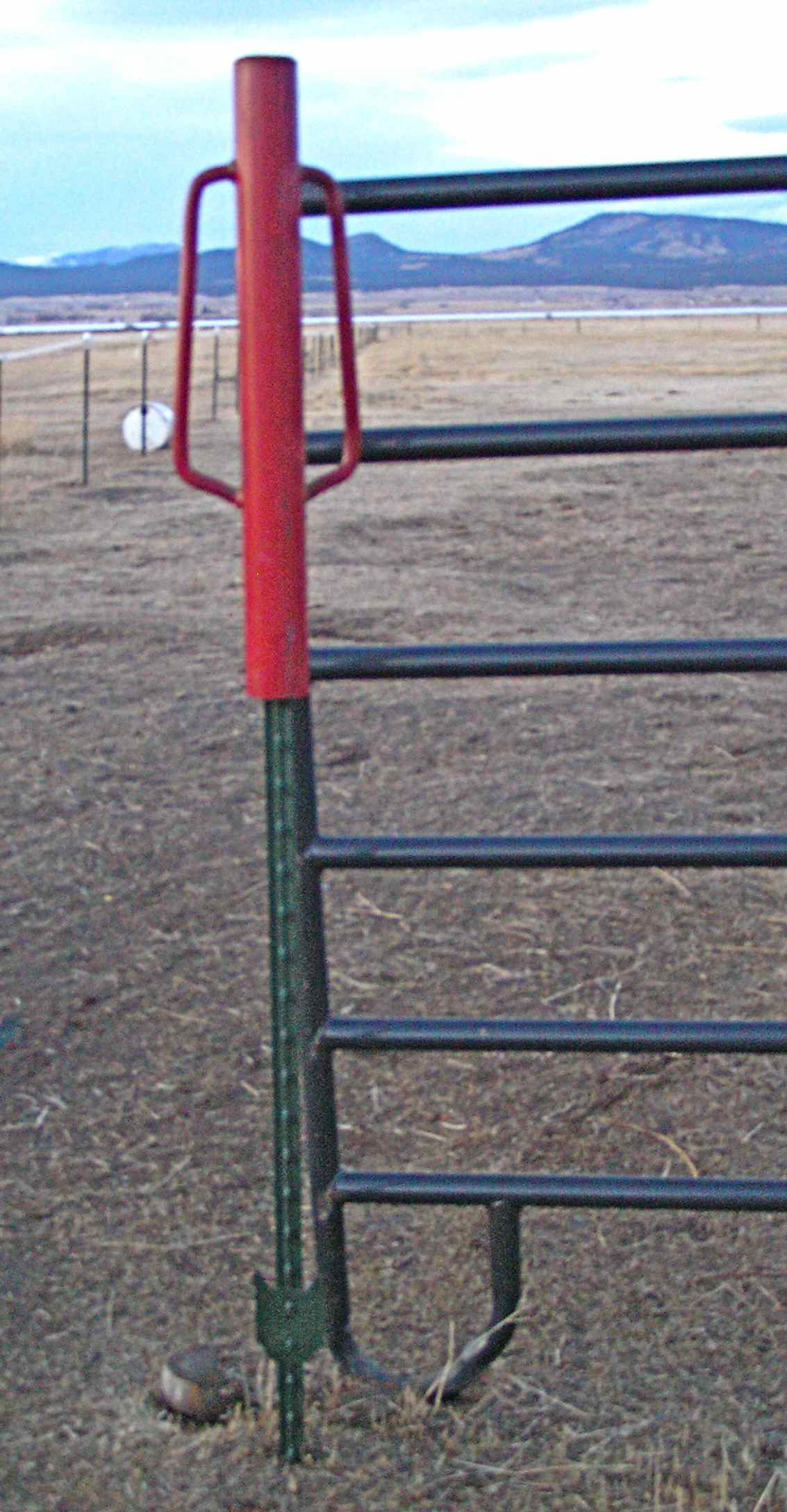 Red post pounder on a t-post is used to drive it into the ground